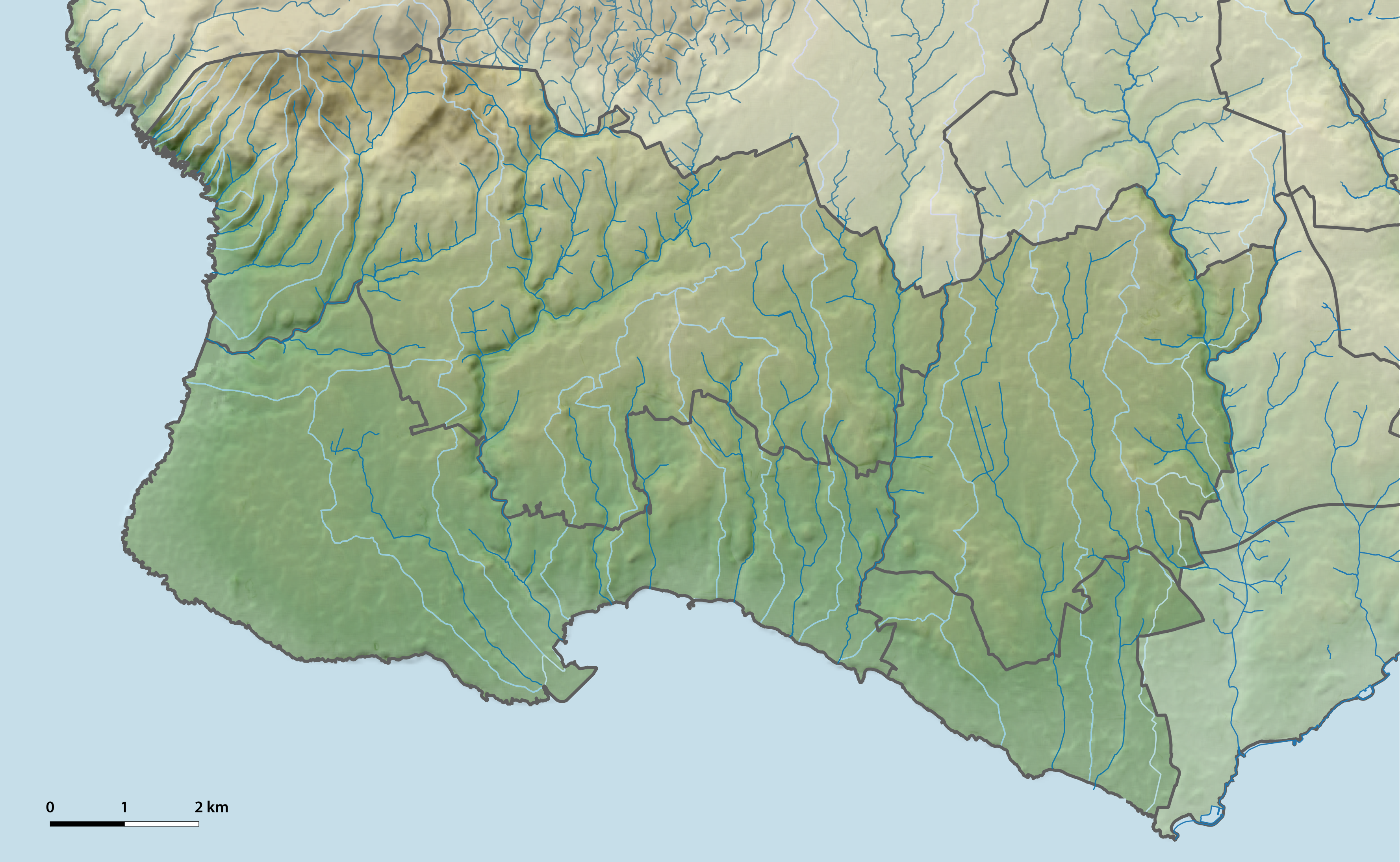 Relief map of the municipality of Cascais, Portugal, including parish and municipal boundaries, as well as streams and rivers.